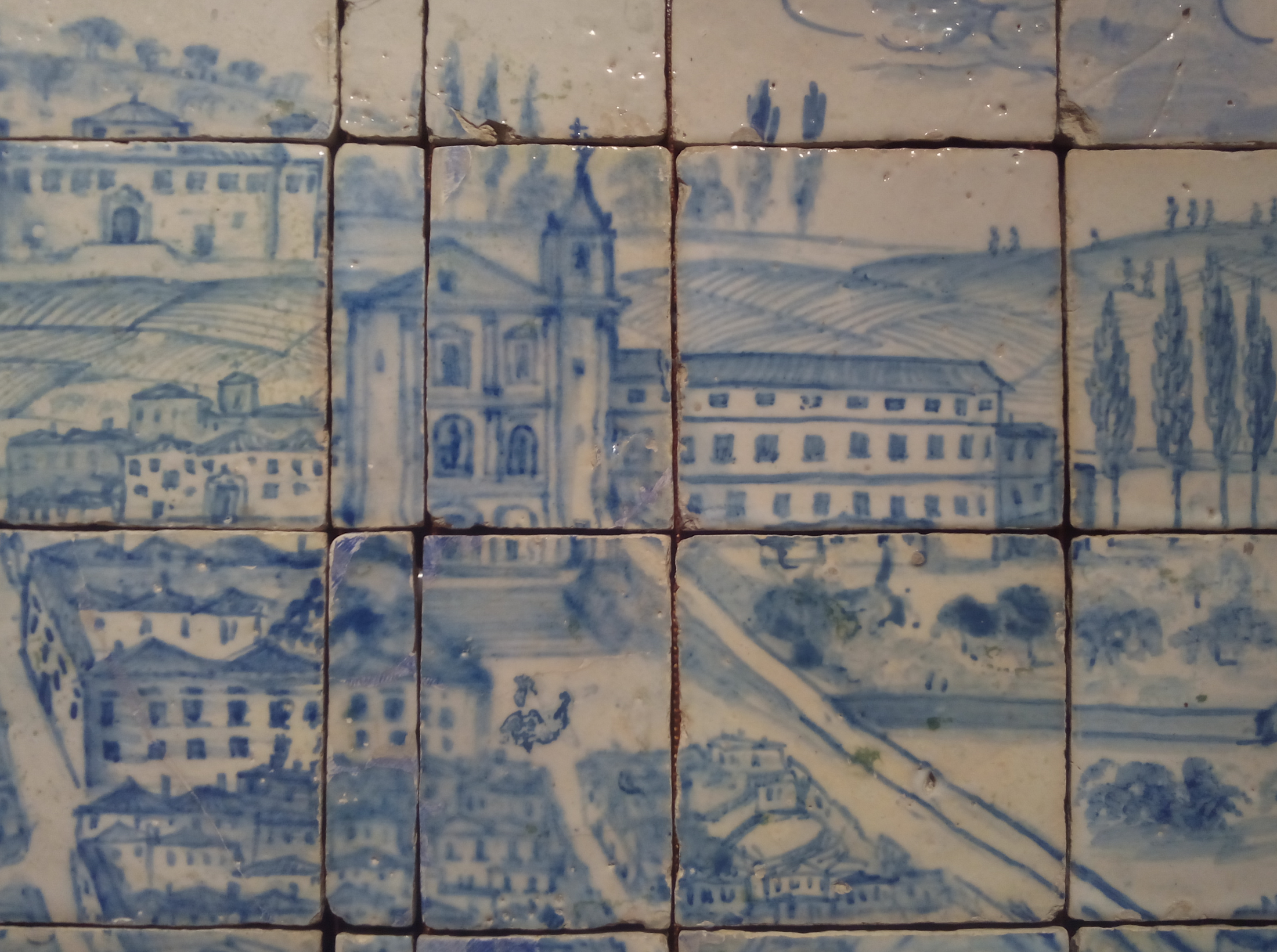 Depiction of the Convent and Hospital of Jesus (Convento e Hospital de Jesus), in Lisbon, in an early 18th-century tile panel depicting a view of city. Currently in the National Tile Museum (Museu Nacional do Azulejo), in Lisbon, Portugal.